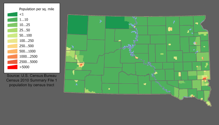 South Dakota state population density map based on Census 2010 data. See the data lineage for a process description.